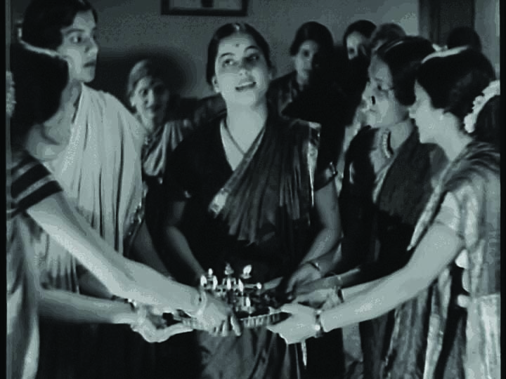 Scene from the Marathi film Kunku. The film was also released in Hindi as Duniya Na Mane.